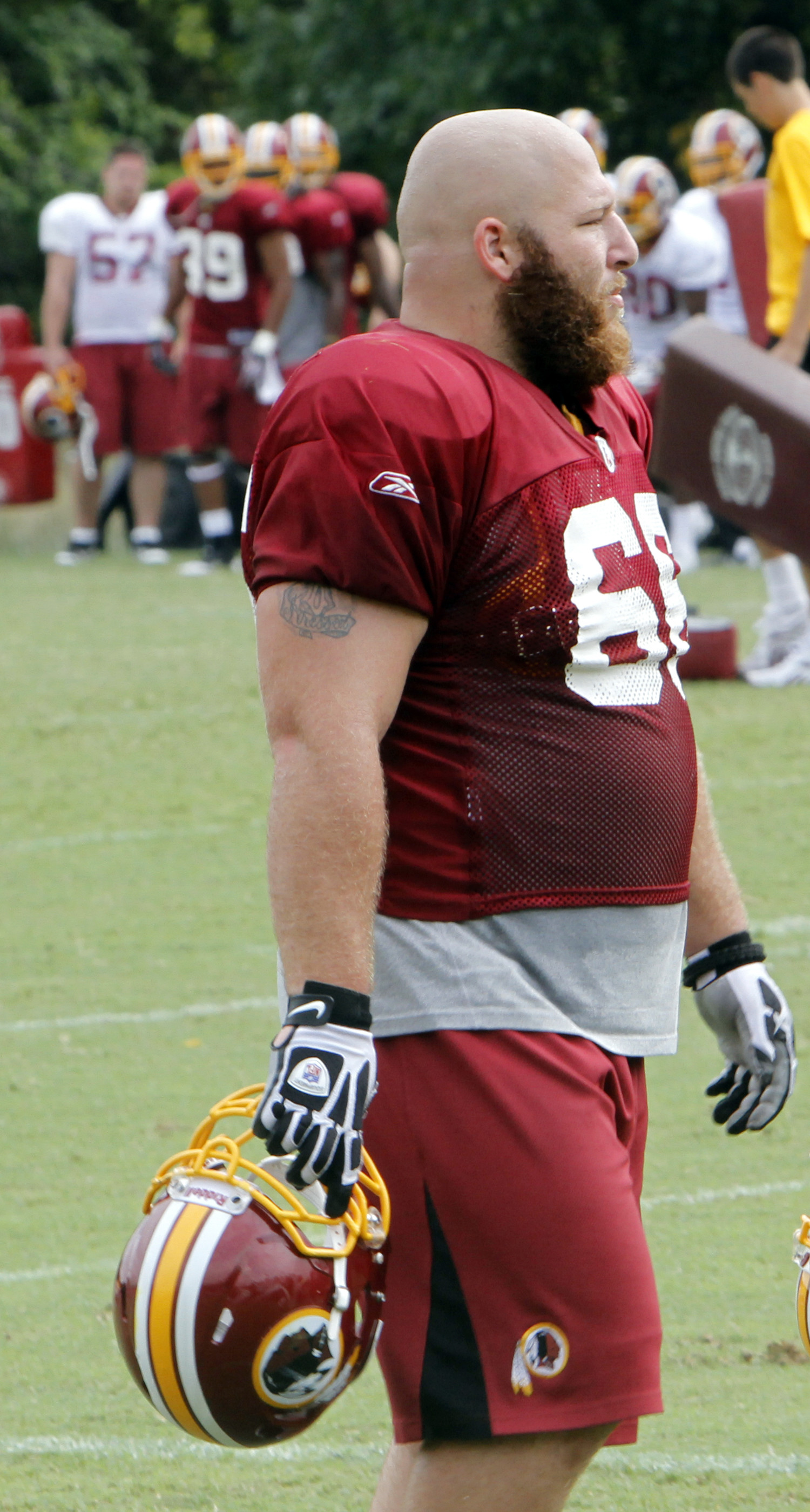 Chris Neild at Redskins Training Camp August 15, 2011